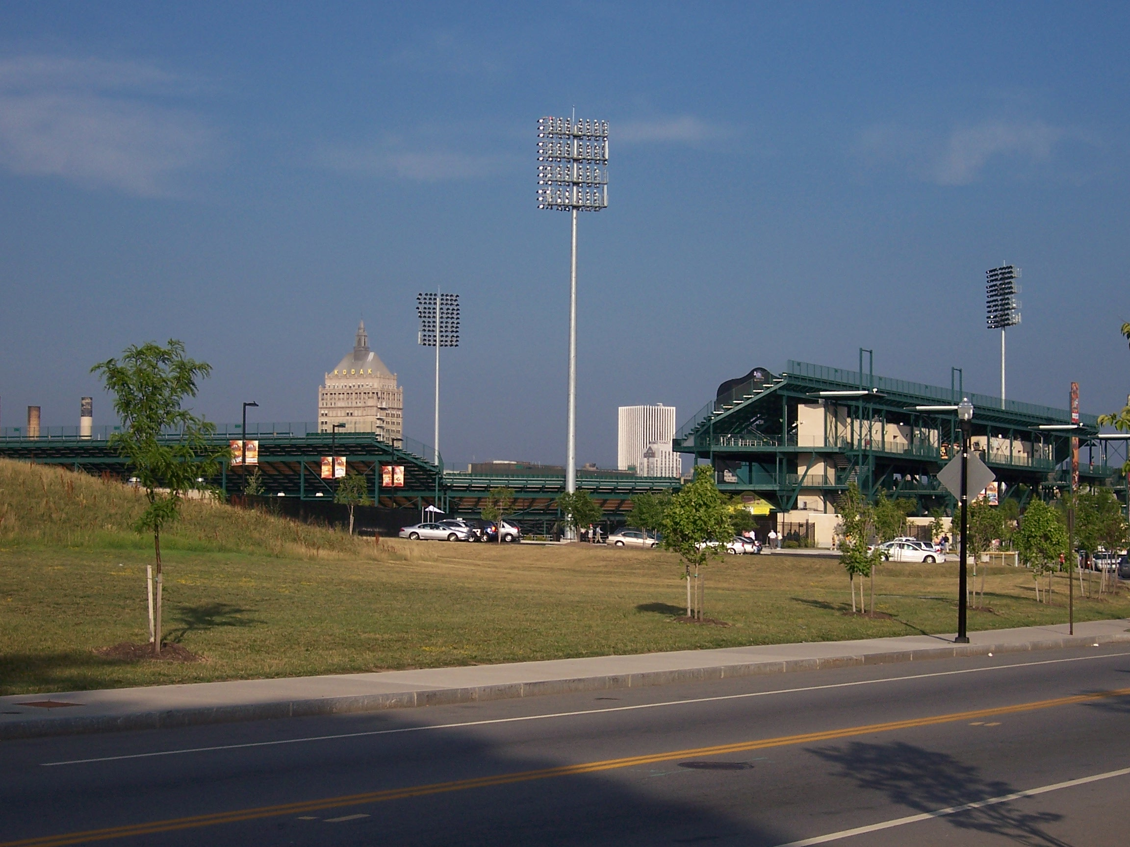 PAETEC Park, a soccer-specific stadium in Rochester, New York. This is the home stadium for the Rochester Rhinos soccer team and the Rochester Rattlers lacrosse team. This picture was taken prior to a soccer game. The camera is facing roughly east. Kodak Tower, the global headquarters of the Eastman Kodak company, can be seen to the left-center of the image. The Chase Tower is to the right, with the Hyatt Regency in front of it. New York State Route 31, here named Broad Street, is in the foreground (eastbound to the right).